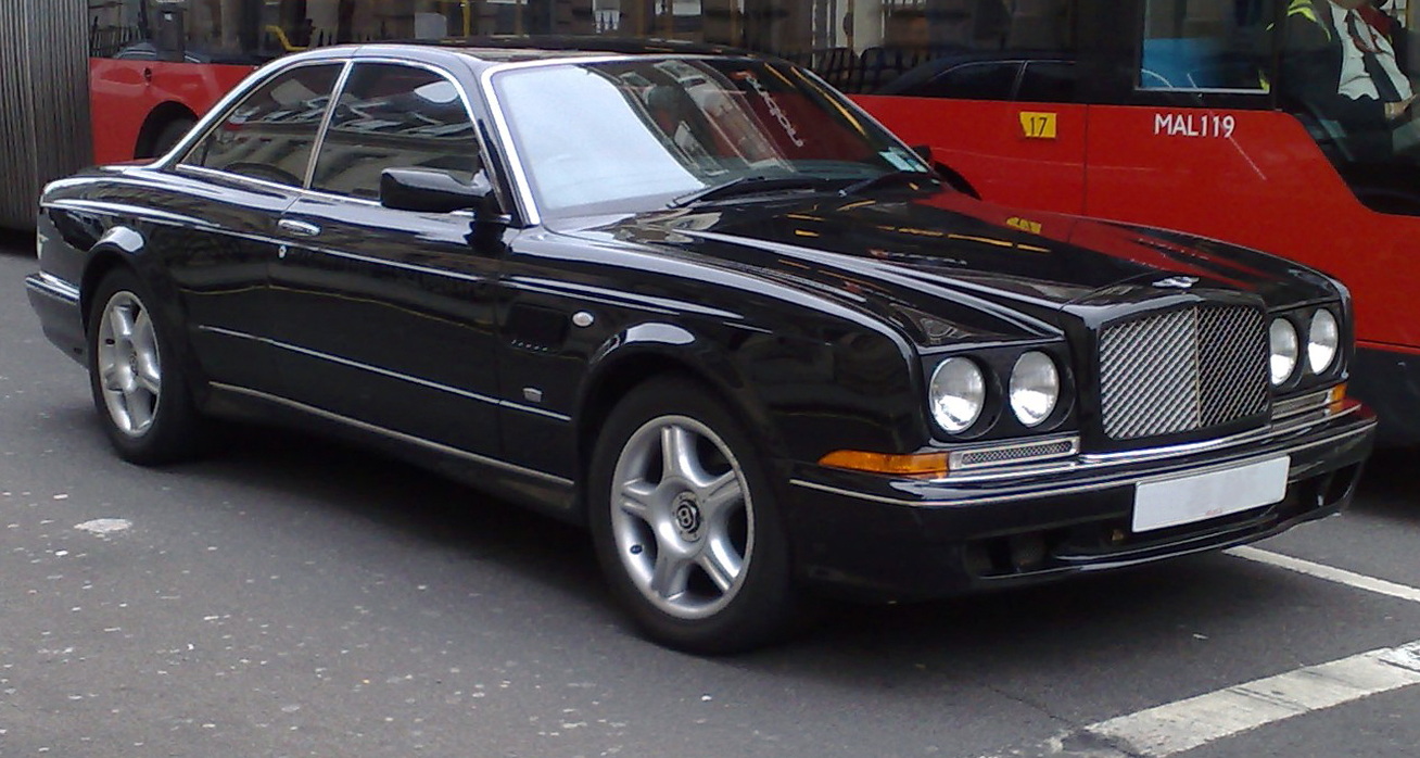 2001 Bentley Continental R Mulliner - a limited production 420hp version easiest recognized by the side vents usually fitted. 131 were built between 1999 and 2003.